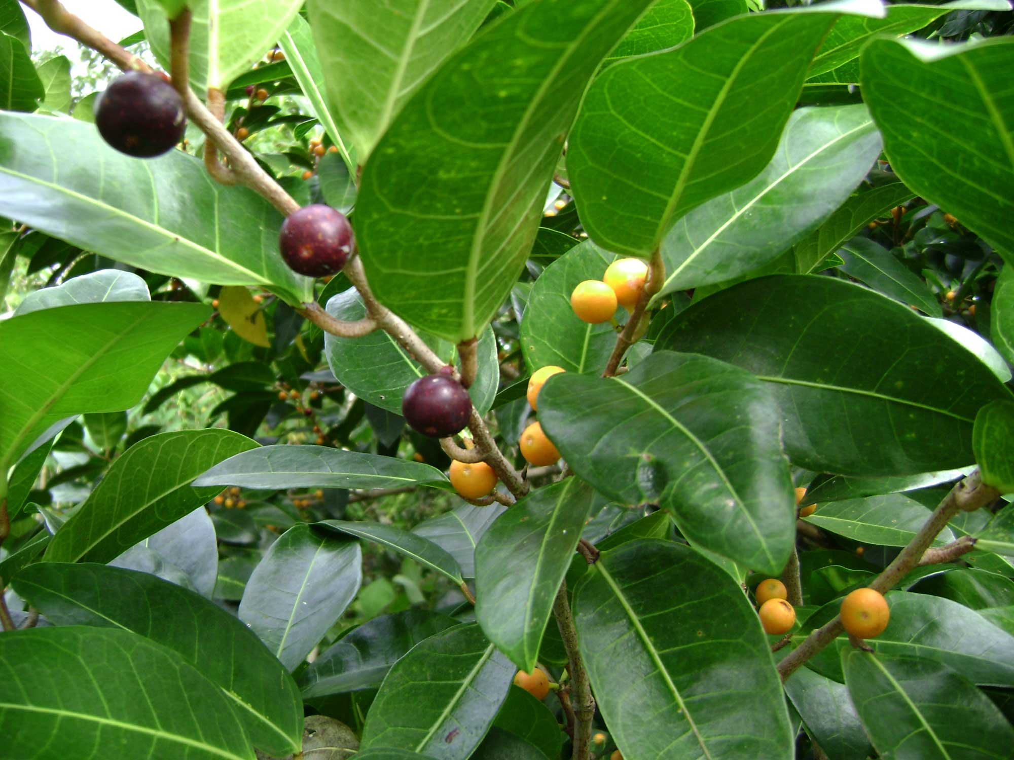 Ficus tinctoria, in Vavaʻu, Tonga